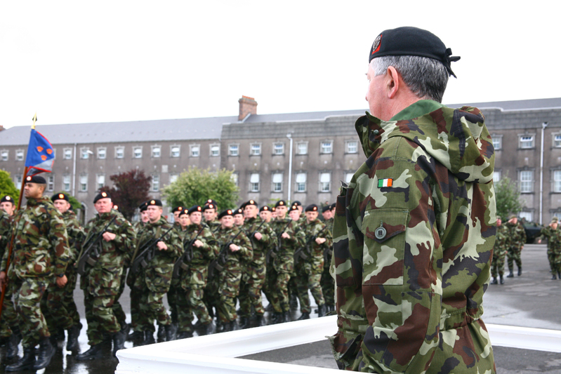 Stand down parade for Brig Gen Pat Hayes, General Officer Commanding 1 Southern Brigade at Collins Barracks Cork